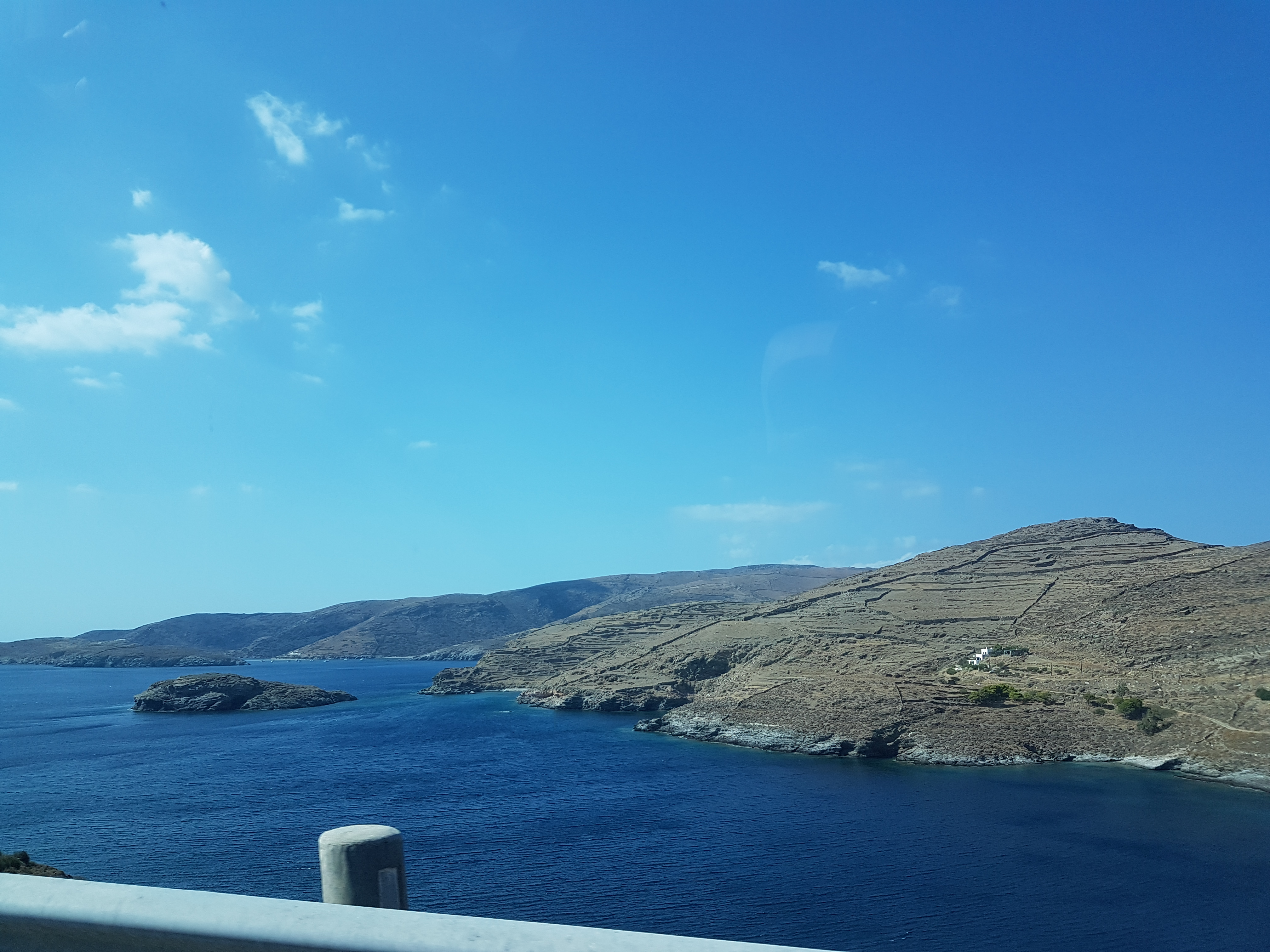 Vriokastri and Vriokastro, Kythnos 2018